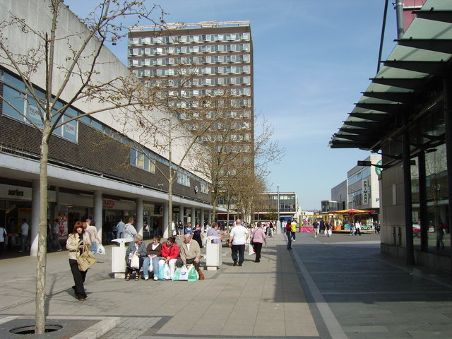 Basildon Precinct Part of Basildon's main shopping precinct